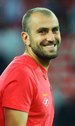 Yura Movsisyan